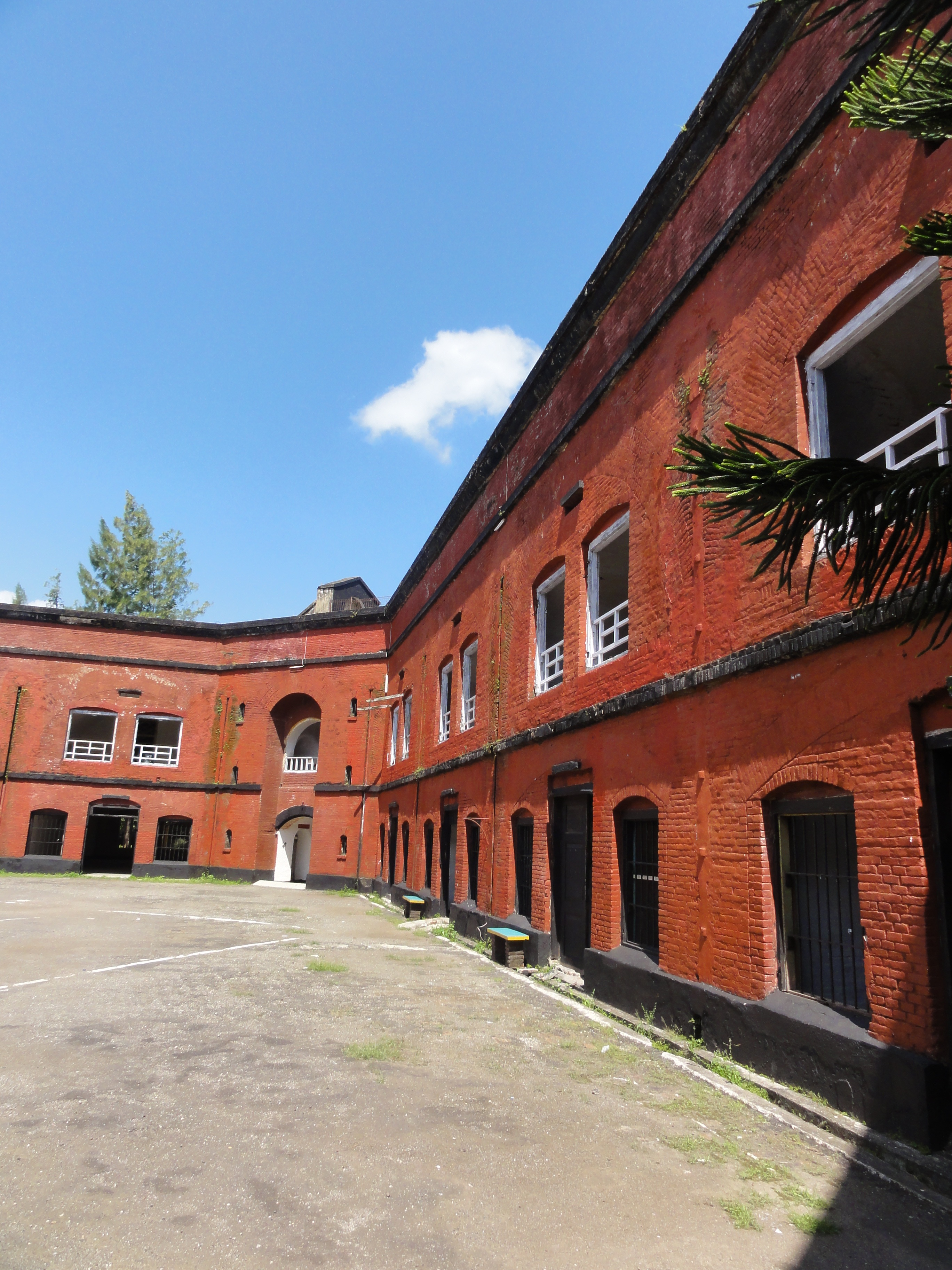 Interior building - Fort van der Wijck - Gombong - Java - Indonesia